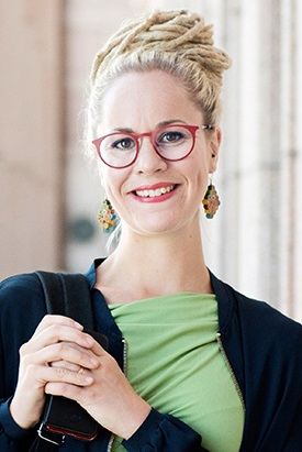 Hanna Sarkkinen eduskuntatalolla 2018